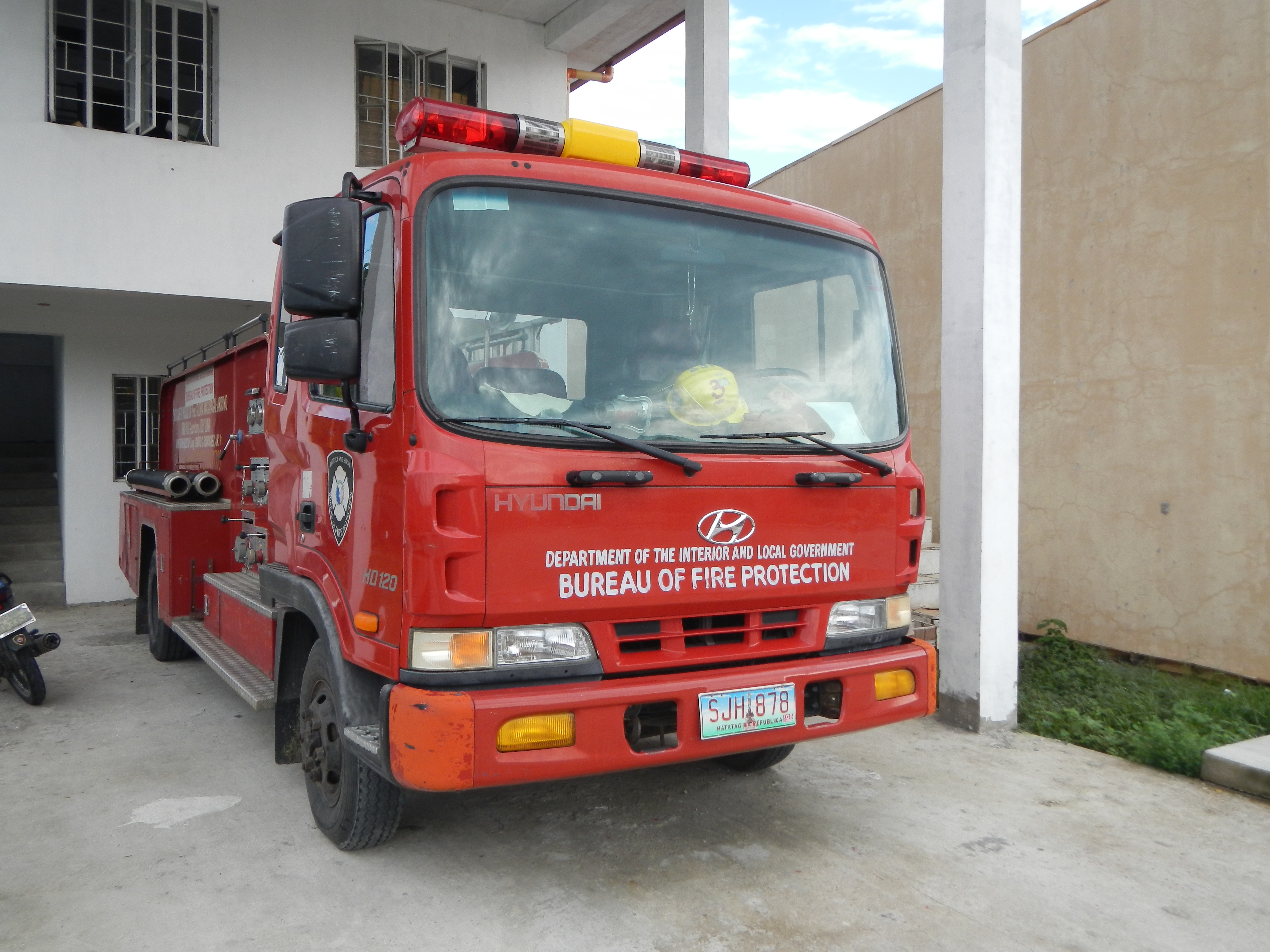 UploadWizard photos --- (general description) of (landmarks, heritage, culture, comprehensive, photography) of the new Jalajala, Rizal[1] Town Hall (a fourth class municipality of Rizal, Philippines, latest census, population of 30,074 people in 4,759 households, has a land area of 4,930.000 hectares representing 3.77% of the total land area of the province Mount Sembrano[2] forms the boundary of Jalajala and Pililla.[3] Coordinates: 14°20'8"N 121°20'29"E Website [4] Geographical location: Rizal, Region 4, Philippines, Asia Geographical coordinates: 14° 21' 9" North, 121° 19' 23" East